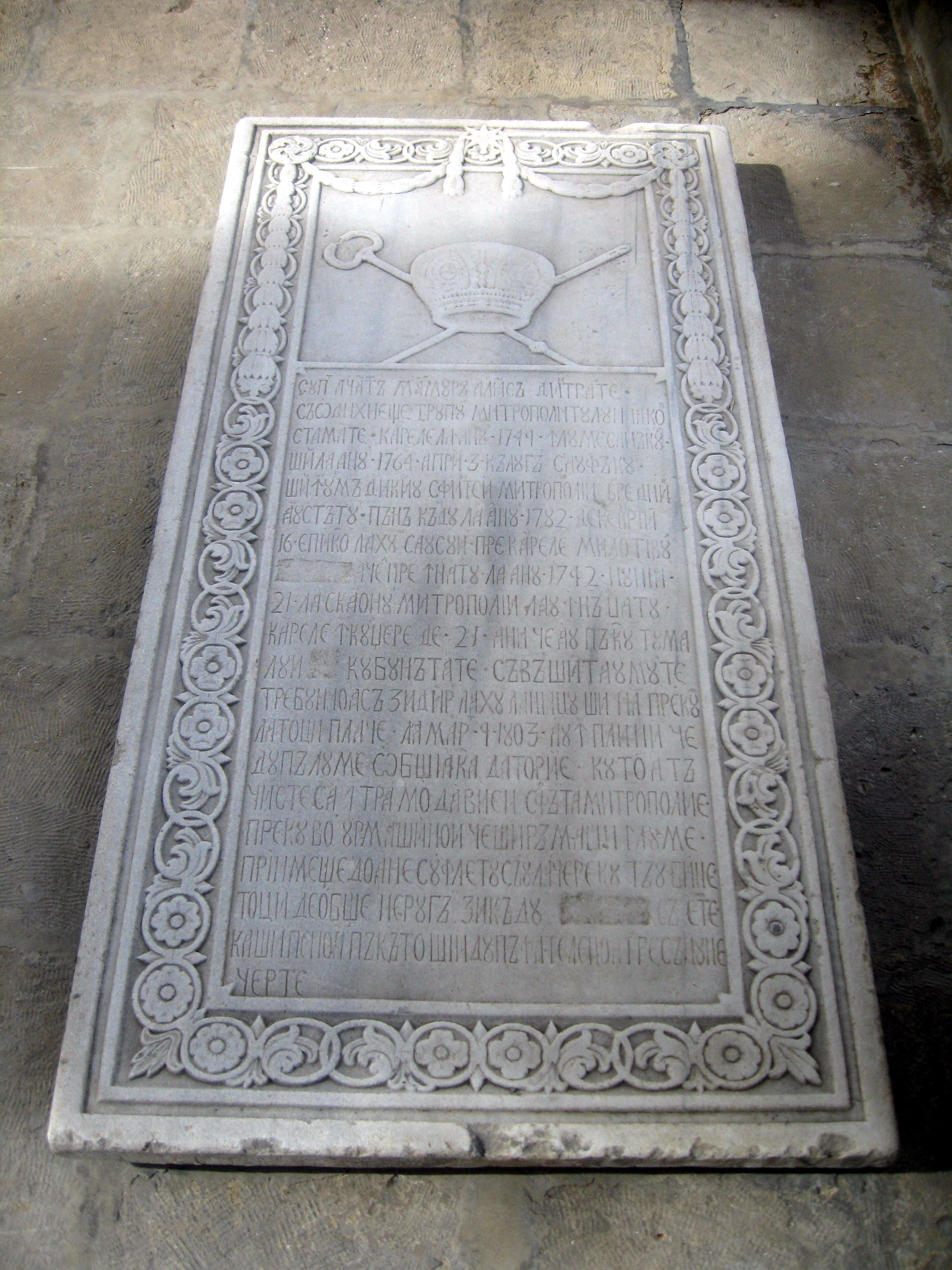 St.George Church in Iași (old Metropolitan Cathedral)